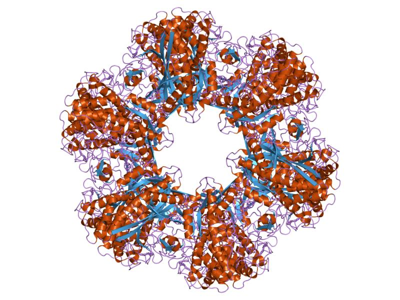 Cartoon representation of the molecular structure of protein registered with 2gls code.